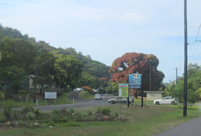 Yarrabah